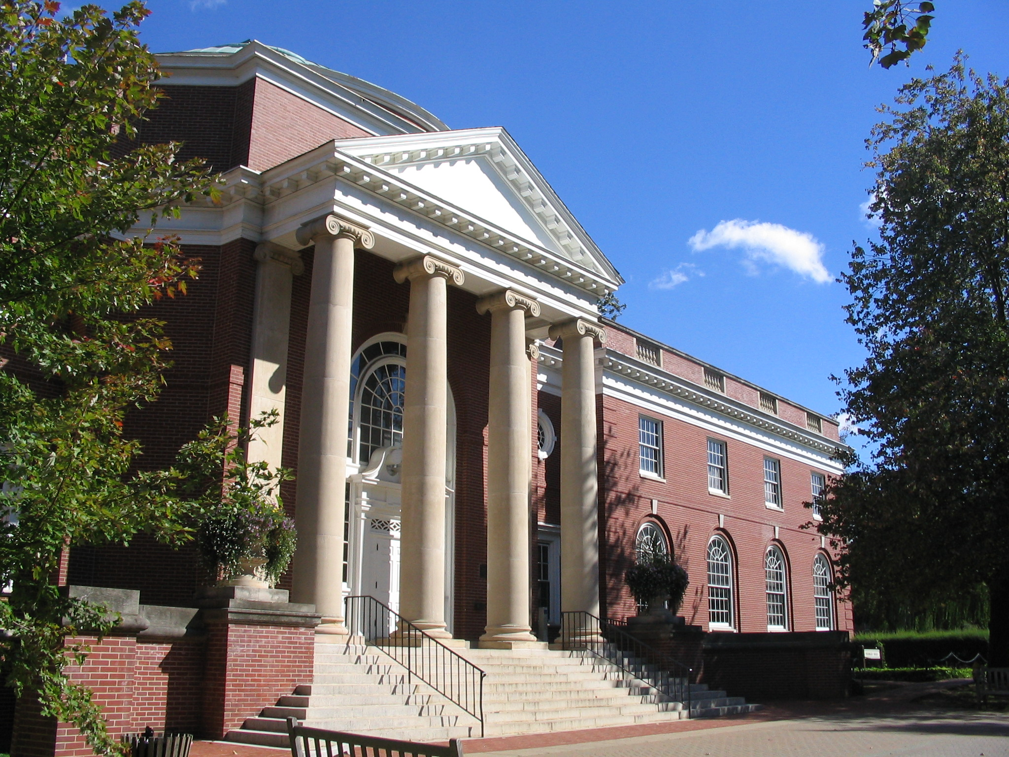 Trinkle Hall, University of Mary Washington.